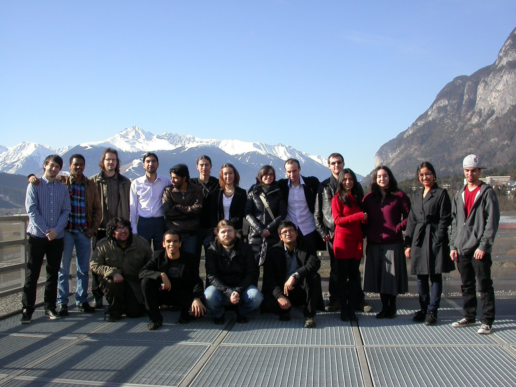 Group Photograph of the First Batch on the roof of the Home University - Innsbruck